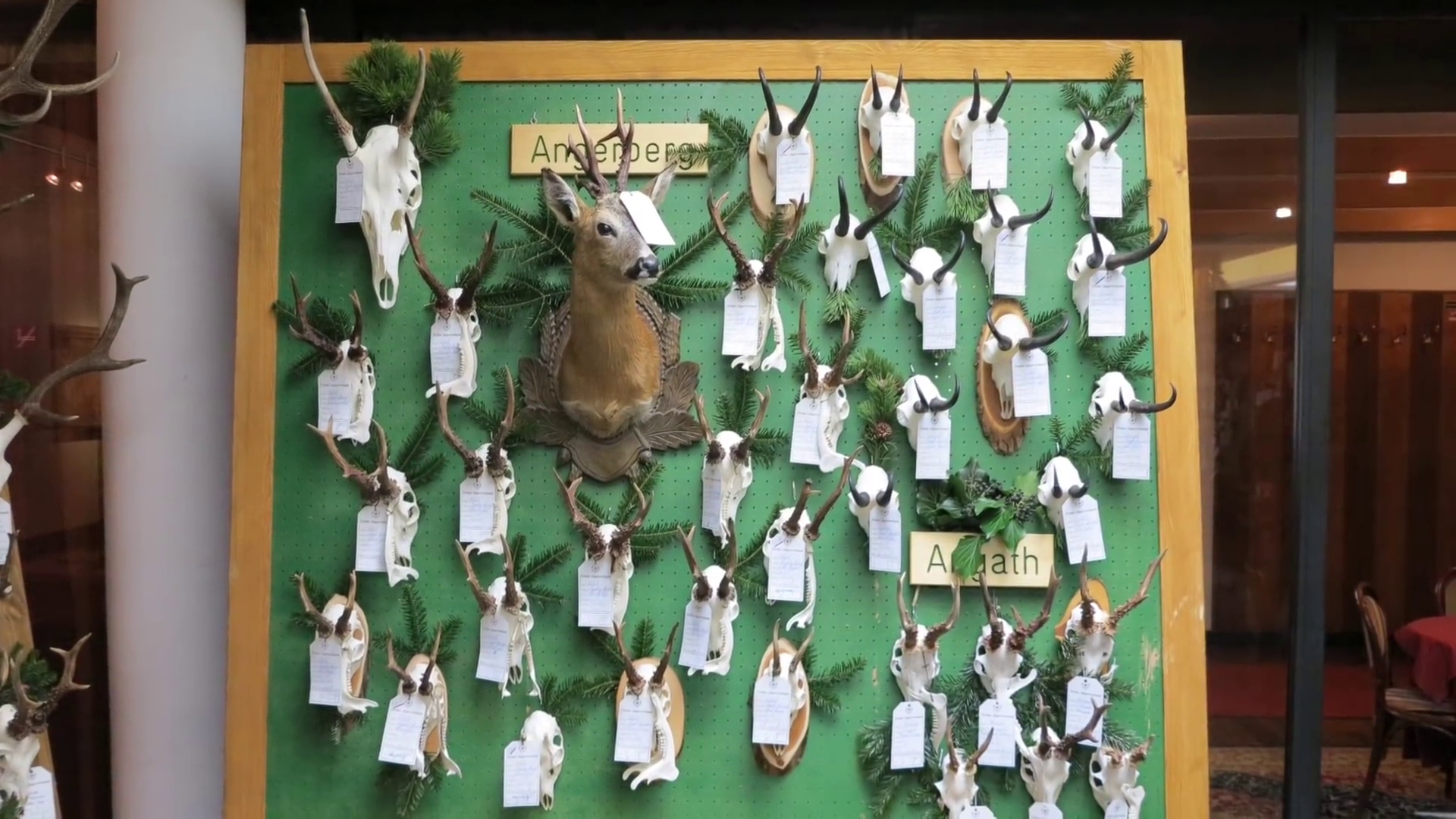 (Mandatory) Trophy show Kufstein District, Austria hunting year 2012/13